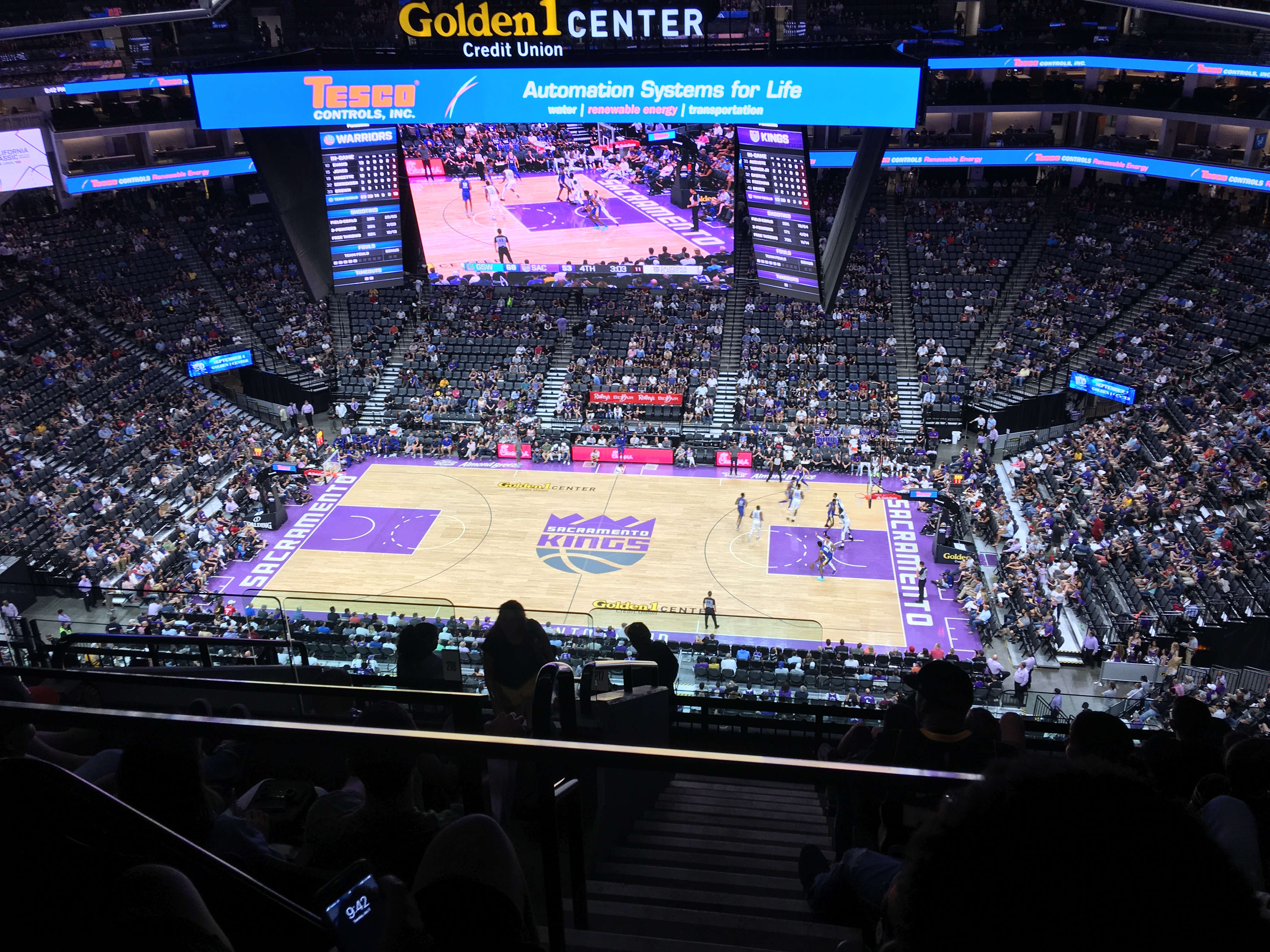 Inside of Golden 1 Center during a Sacramento Kings NBA Summer League game (July 3, 2018)